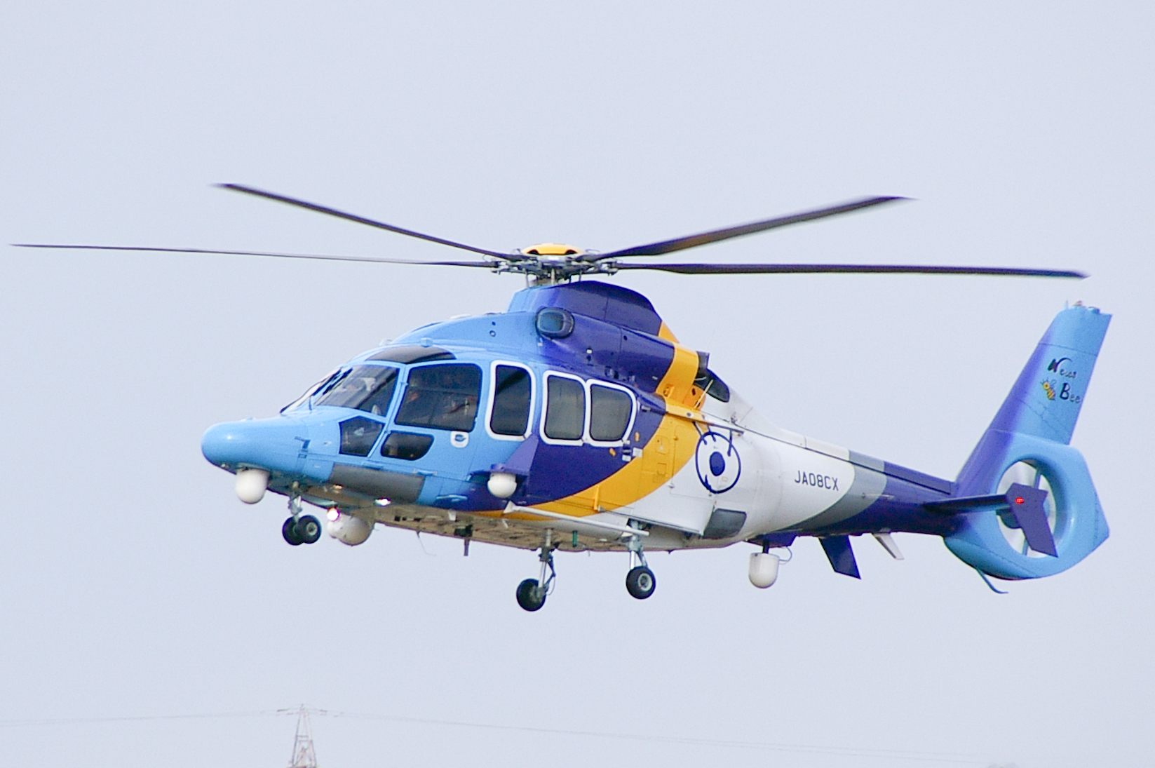 Photograph of the landing of Toho Air Service's Eurocopter EC155B (JA08CX, News Bee), chartered by Fuji Television for news gathering, taken at Yao Airport in Yao, Osaka, Osaka Prefecture, Japan.